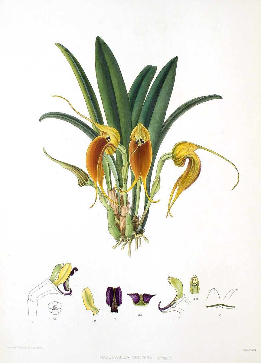 Illustration of Masdevallia velifera from Florence H. Woolward: The Genus Masdevallia